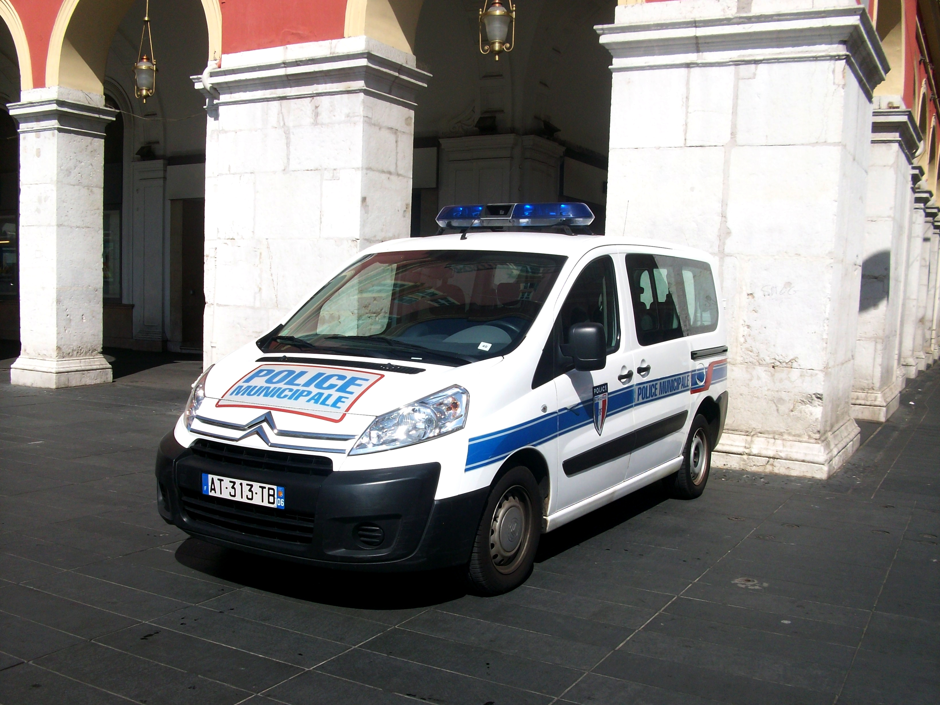 Municipal police, Nice